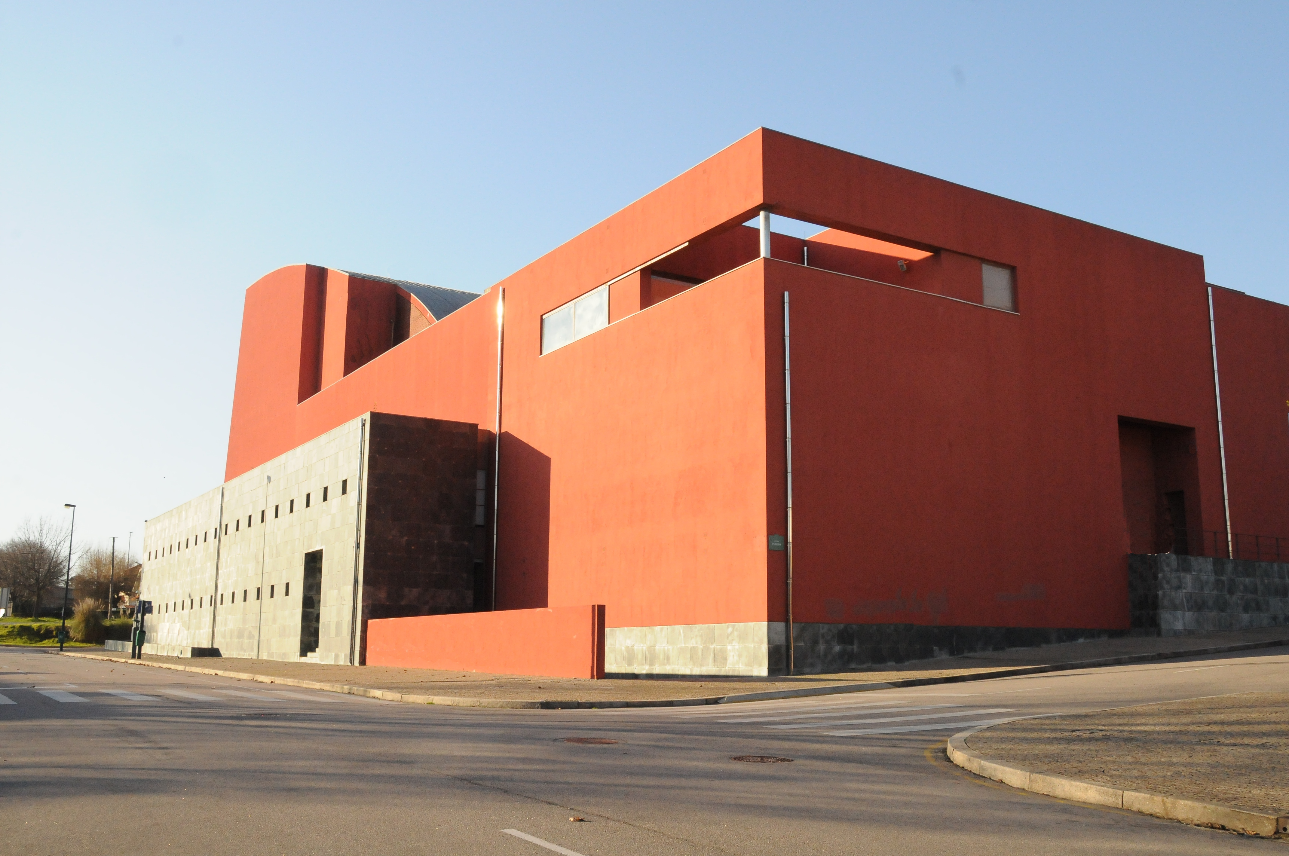 Campo Alegre Theater, in Porto, Portugal.